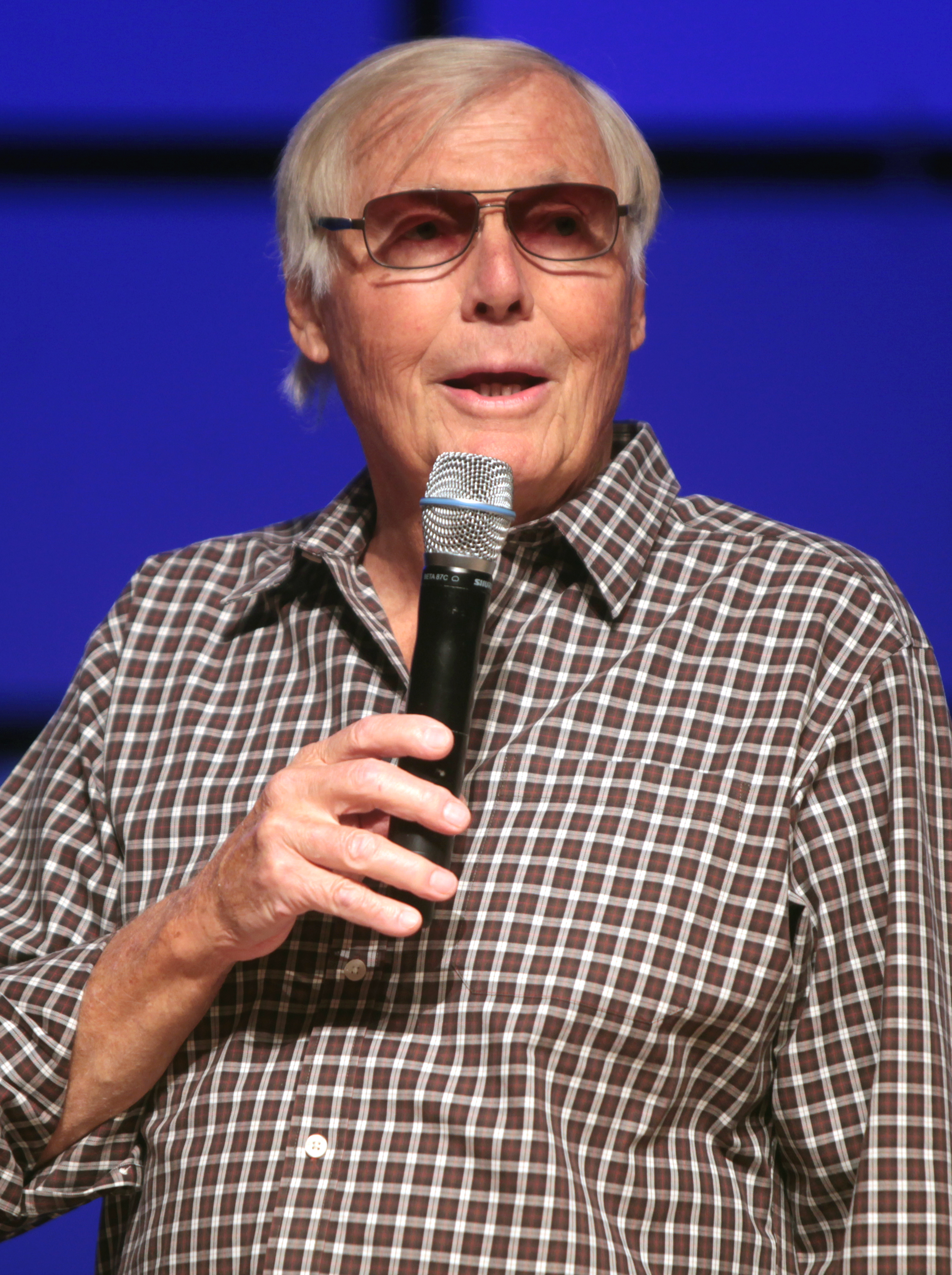 Adam West speaking at the 2014 Phoenix Comicon in Phoenix, Arizona.